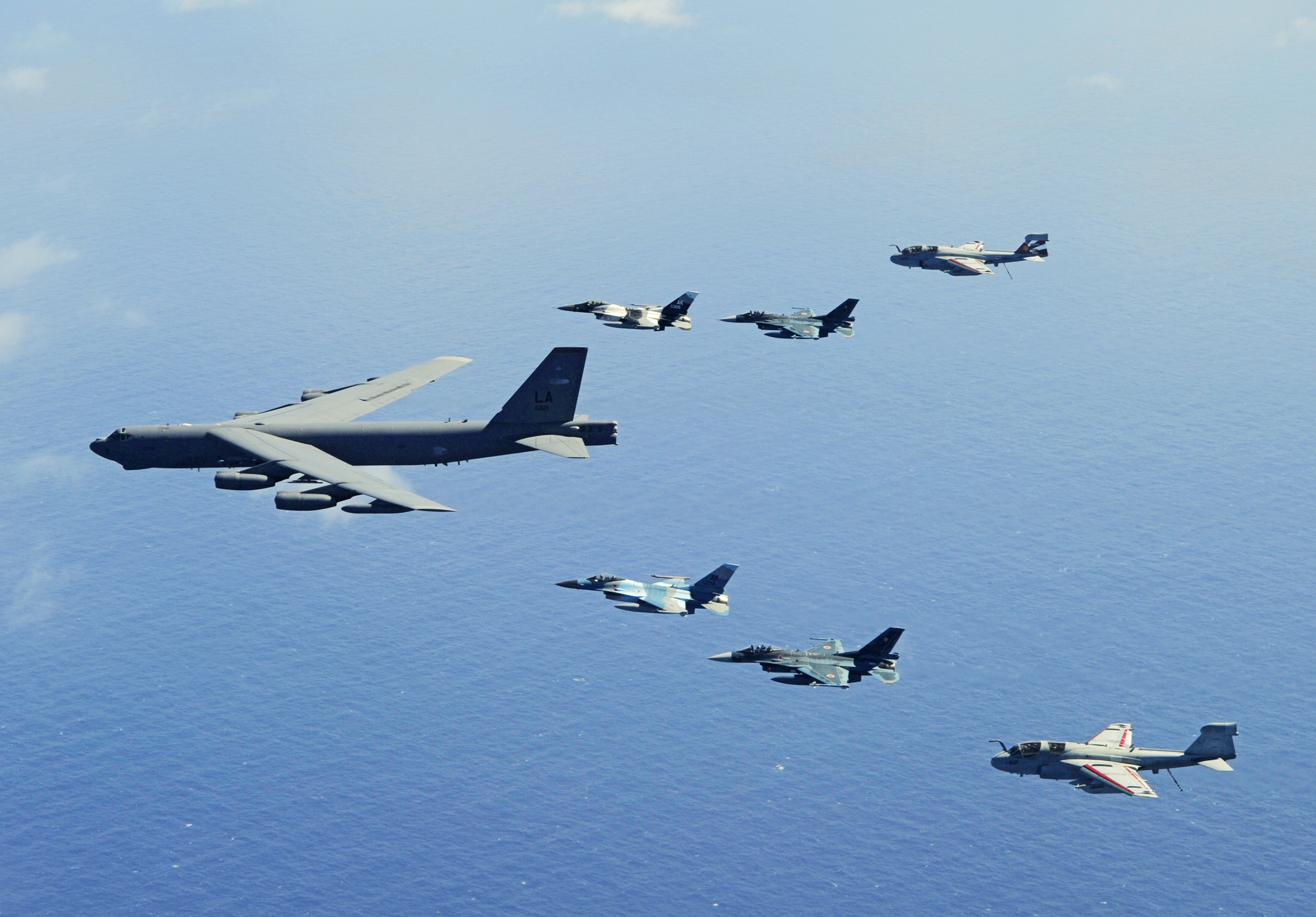 A B-52 Stratofortress leads a formation of two F-16 Fighting Falcons; two Japan Air Self-Defense Force F-2 attack fighters and two U.S. Navy EA-6B Prowlers Feb. 15, 2010 near Guam during Exercise Cope North. (U.S. Air Force photo/Staff Sgt. Jacob N. Bailey)